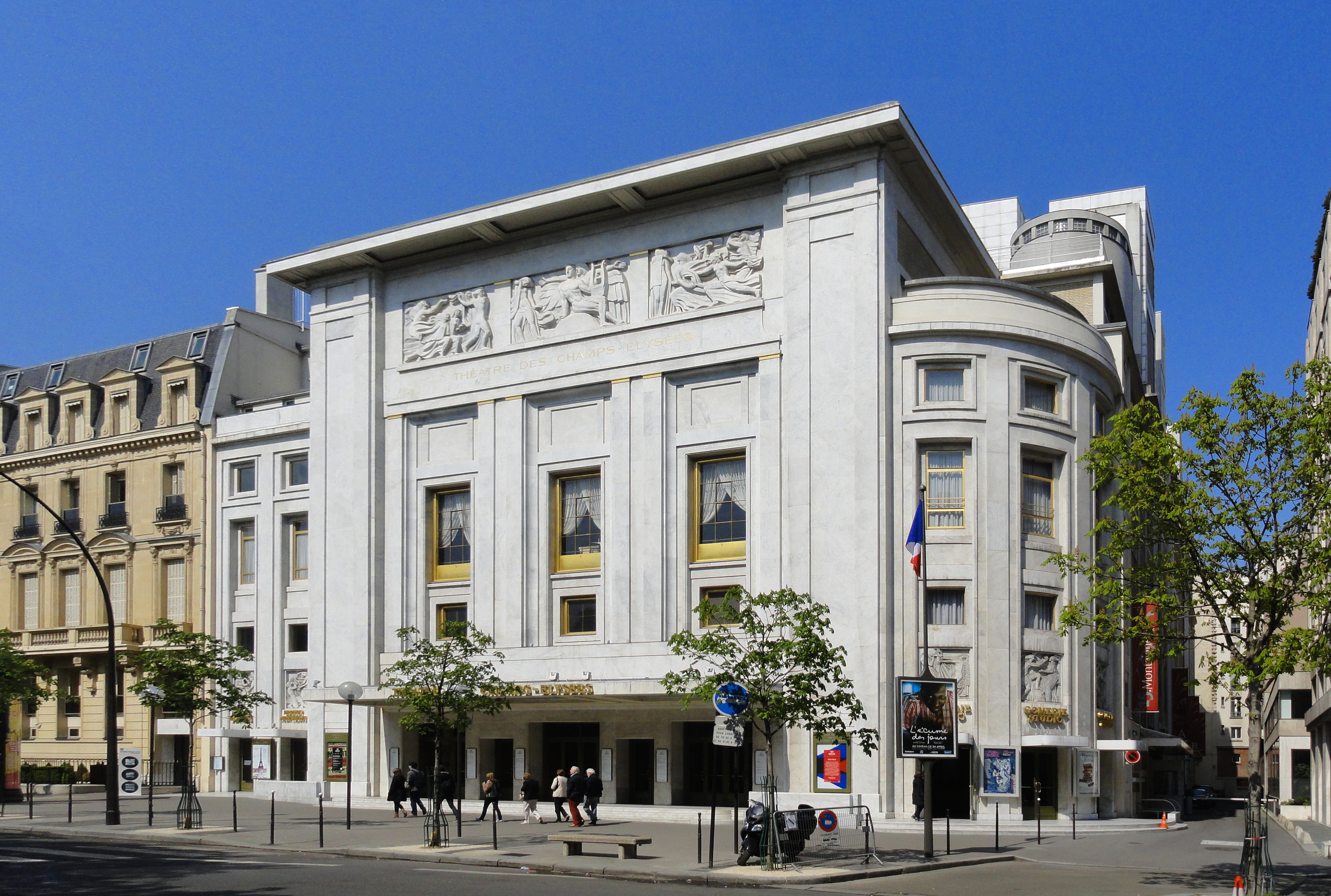 Avenue Montaigne (Champs-Elysées theater) - Paris